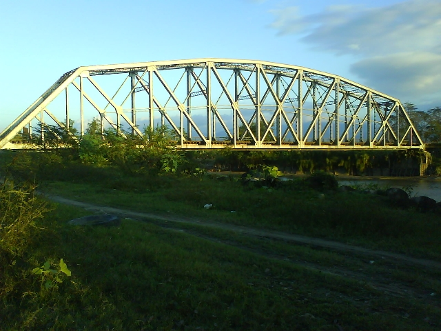 Aldea Oneida, Morales Izabal